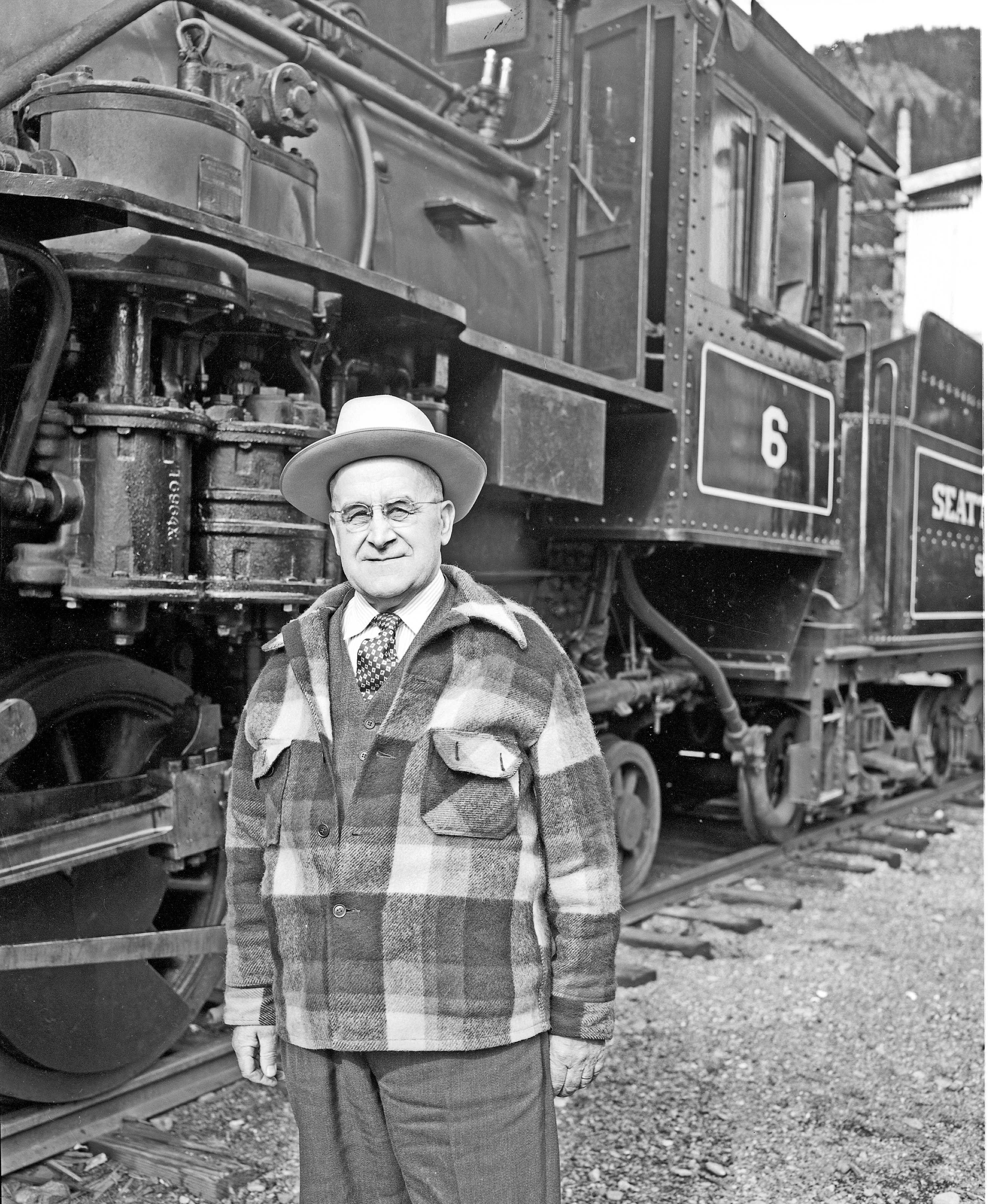 Dana Currier, longtime Seattle City Light employee and one of the key figures in the creation of the company town of Newhalem, Washington near what is now known as Ross Dam, posing with Old Number Six, Newhalem, 1954. Another picture taken the same day also shows Currier. Item 78371, City Light Photographic Negatives (Record Series 1204-01), Seattle Municipal Archives.